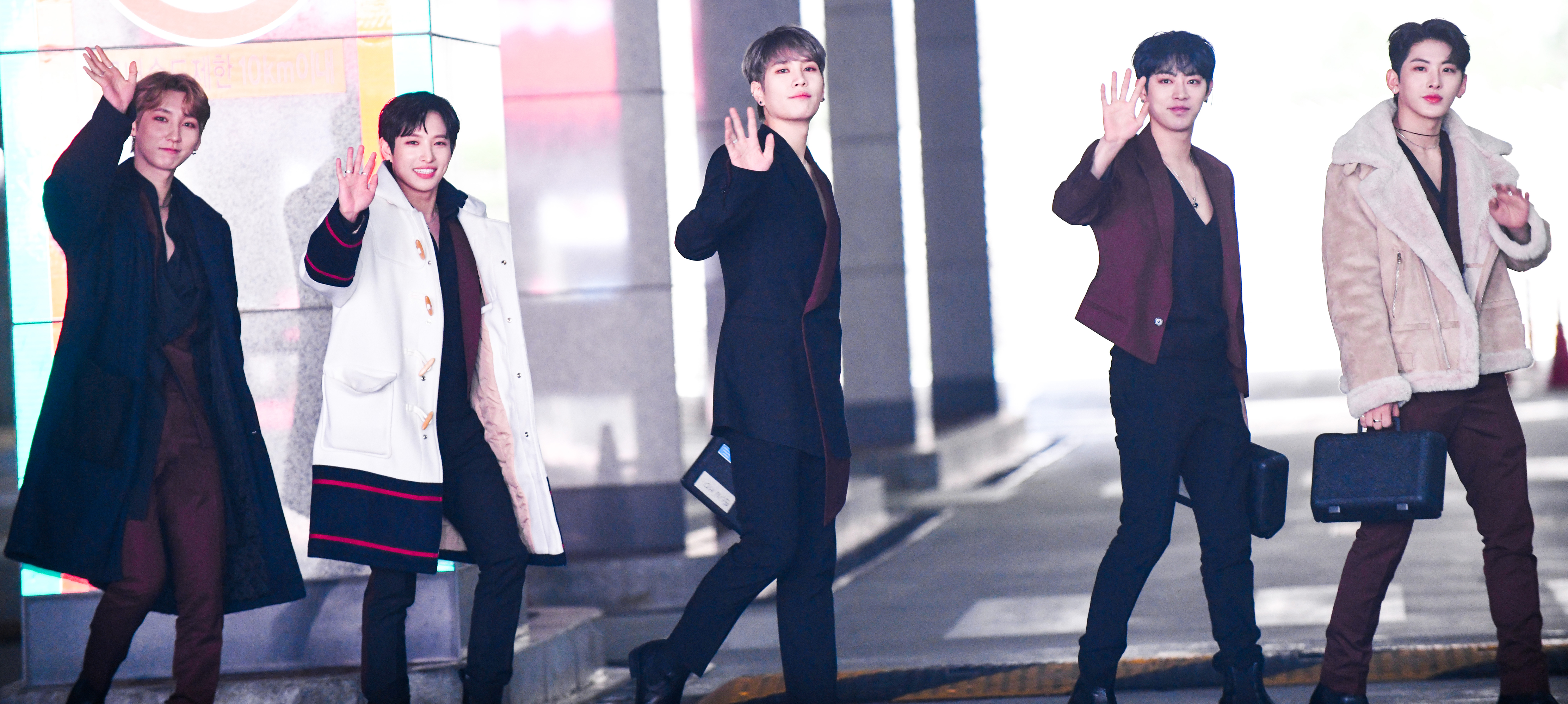 UNVS headed to a recording for MBC Music's Show Champion on March 18, 2020.